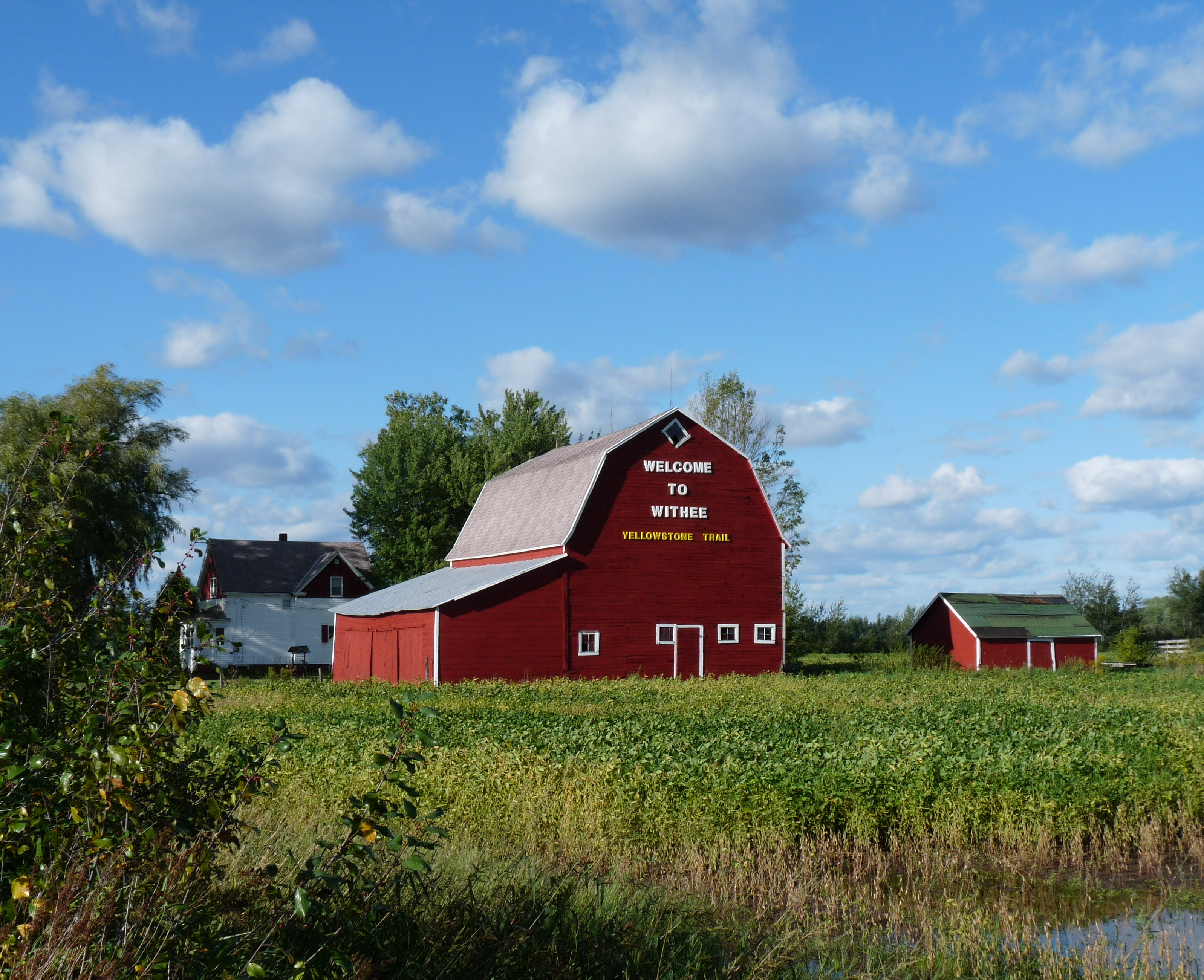 Farm on the south side of Withee, Wisconsin.